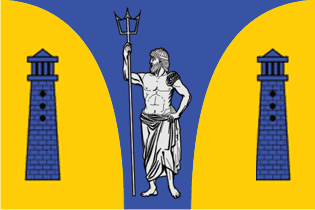 Flag of Vysotck, Leningrad Region, Russia